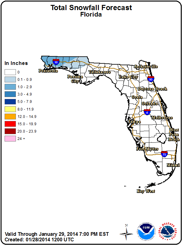 Snowfall forecast issued by the National Weather Service for Florida, valid 7 AM EST 28 January 2014 through 7PM 29 January 2014.